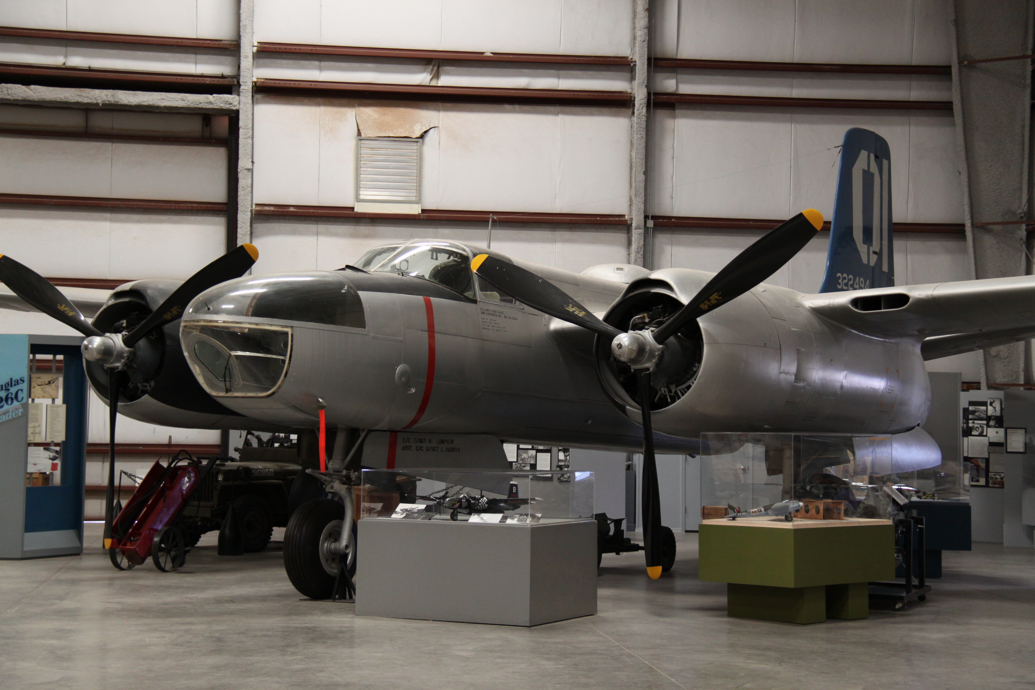 At Pima Air & Space Museum